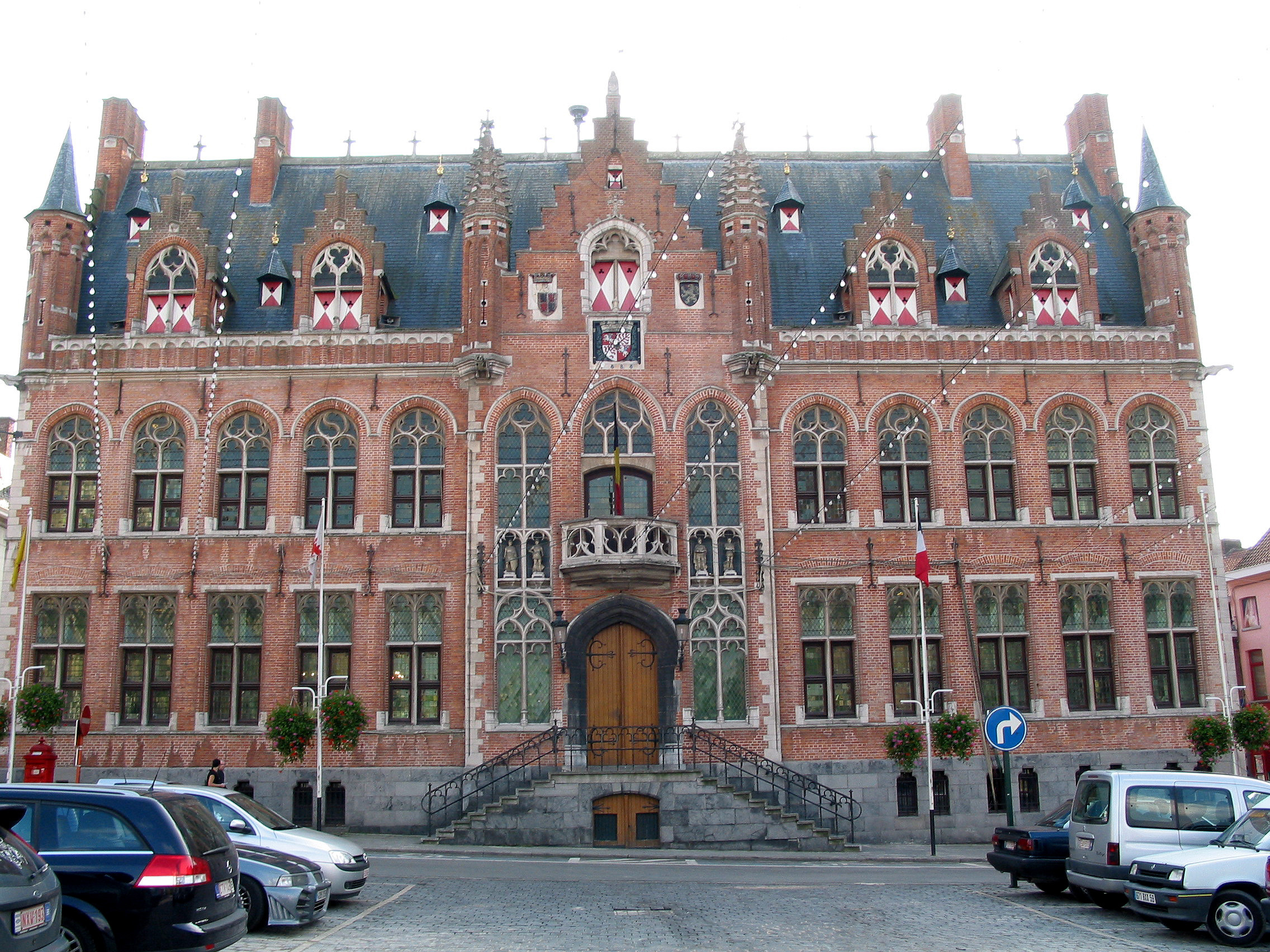 Mouscron (Belgium), the town hall (1888/1890 - architect: René Aimé Buyck).